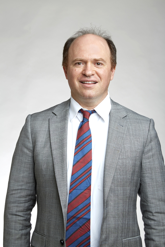 Daniel T. Wise is an American mathematician who specializes in geometric group theory and 3-manifolds. He is a professor of mathematics at McGill University Attribution: The Royal Society